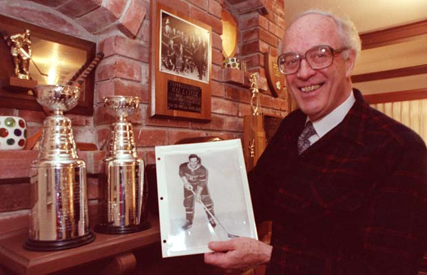 Hal was proud of his career in hockey at home in Vancouver